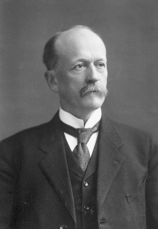 A formal portrait of Charles Doolittle Walcott (1850-1927), paleontologist and fourth Secretary of the Smithsonian Institution from 1907 to 1927, looking to his left